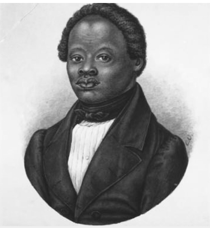 A 19th century photo of Liberian missionary and pastor, George Thompson. Identity of photographer is unknown.